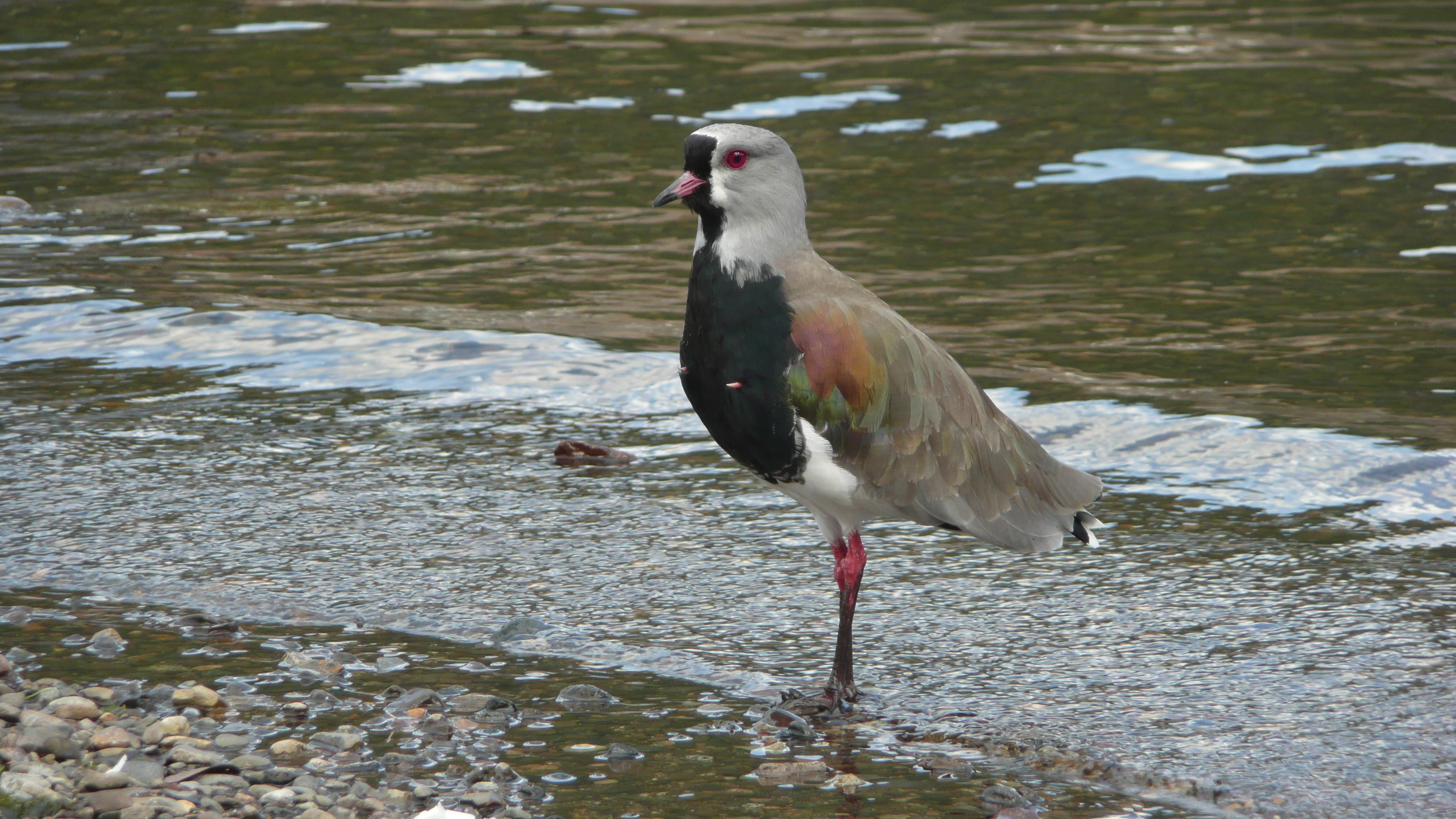 A Southern Lapwing on the shore of Lácar Lake, Argentina.